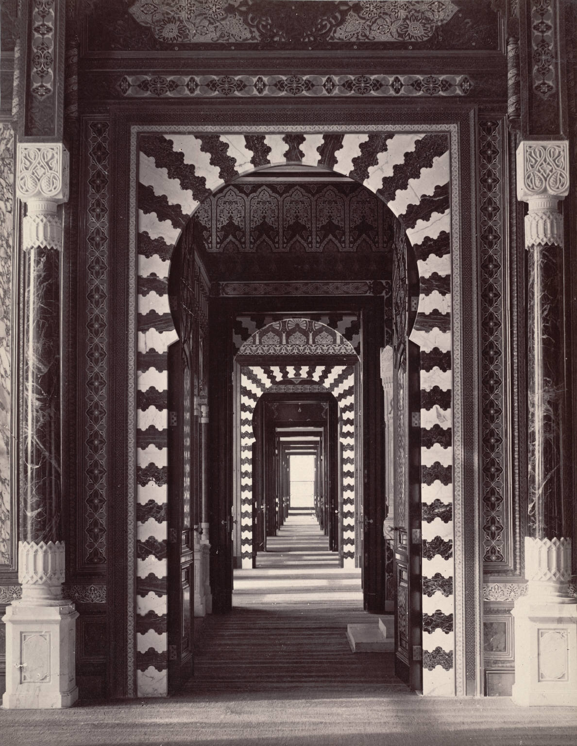 Collection: A. D. White Architectural Photographs, Cornell University Library Accession Number: 15/5/3090.00339 Title: Cairo. Mameluke House Photograph date: ca. 1865-ca. 1895 Location: Africa: Egypt; Cairo Materials: albumen print Image: 10 x 7.7165 in.; 25.4 x 19.6 cm Style: Mamluk Provenance: Transfer from the College of Architecture, Art and Planning Persistent URI: There are no known U.S. copyright restrictions on this image. The digital file is owned by the Cornell University Library which is making it freely available with the request that, when possible, the Library be credited as its source. We had some help with the geocoding from Web Services by Yahoo!